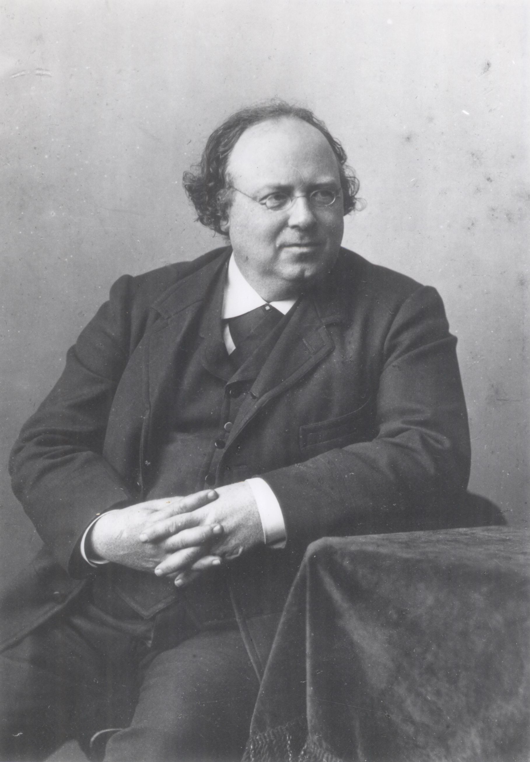 Artist: unknown Date/place: unknown Subject: C. F. E. Hornemann, danish composer Medium: photographic positive, B&W Notes: none Persistent URL: NA Original belongs to the Royal Libray, Copenhagen Original reference: bf008